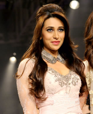 Karisma Kapoor at Shehla Khan celebrates her flagship store's anniversary